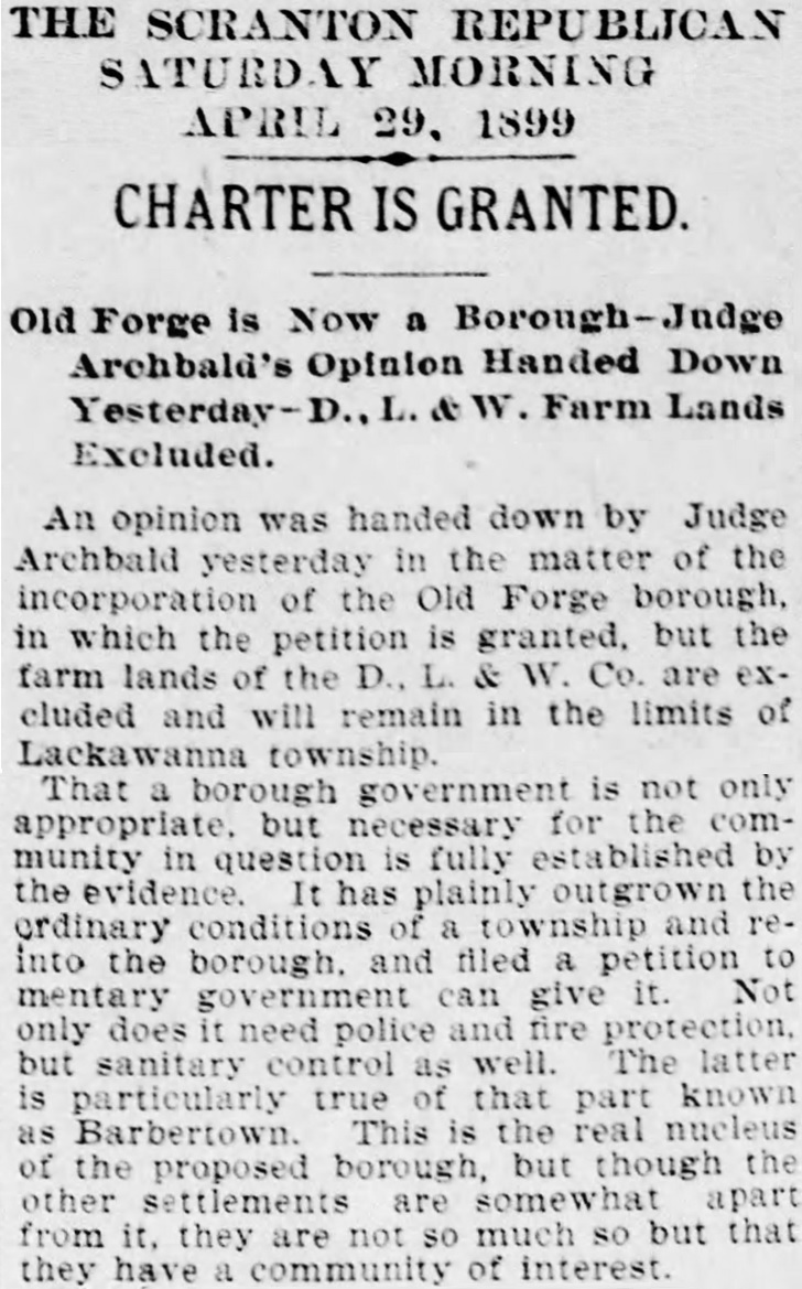 Article regarding incorporation of Old Forge Borough